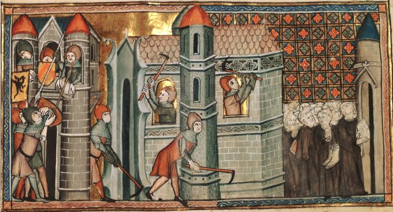 Miniature by Pierart dou Tielt illustrating the Abbatum memoria by Gilles li Muisit (Tournai, c. 1353). Subscript: Hic abbatum memoria fit, qui in hac ecclesia Christi jugum sub regula portarunt mente sedula, postquam fuit restaurata, de quo tempore est data Anno Domini millesimo nonagesimo primo